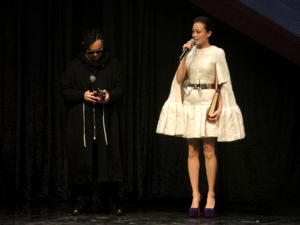 Best Singer Awards - Gold, Ultimate Song Chart Awards 2012